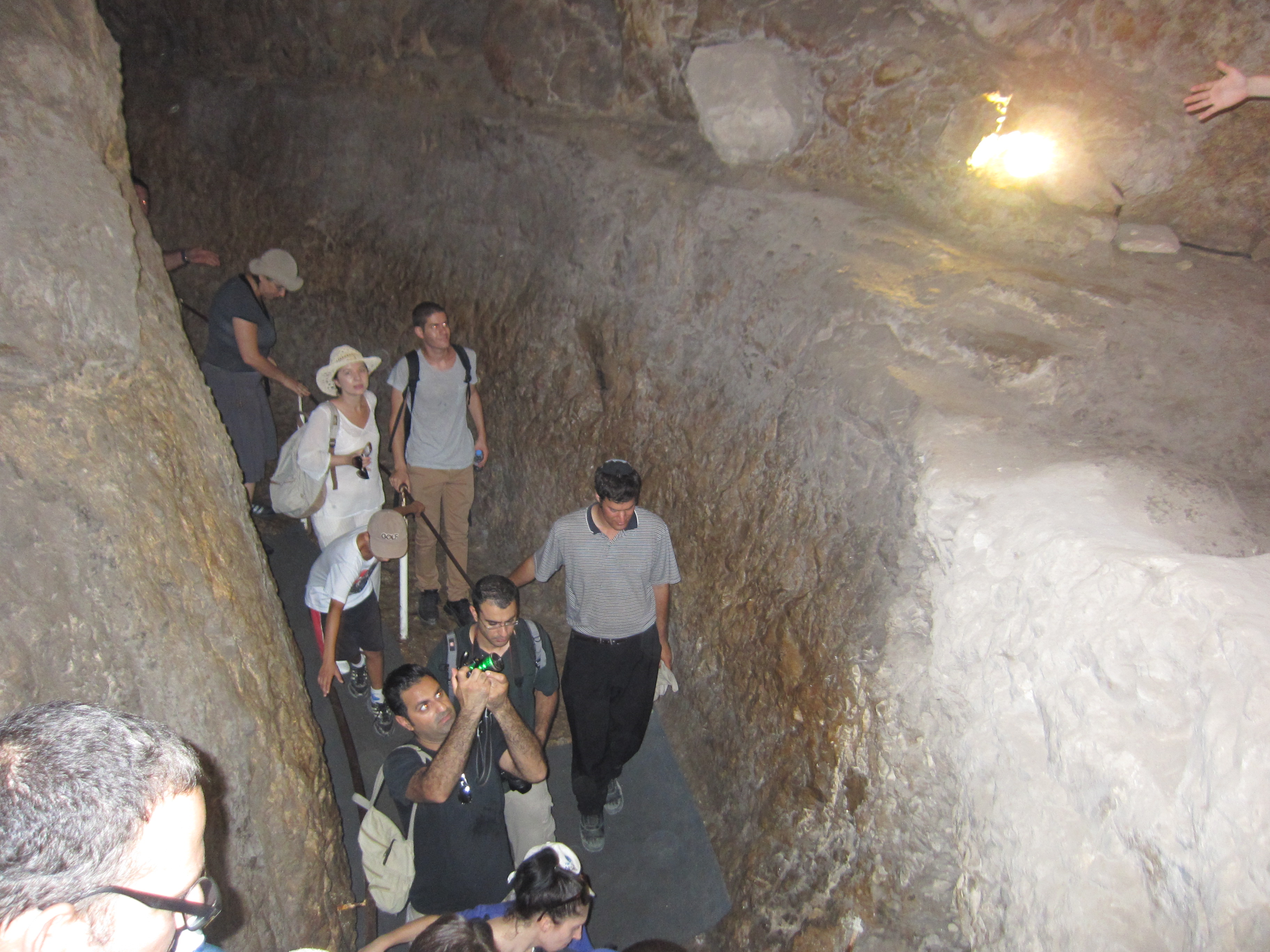 Elef Millim - City of David - JERUSALEM